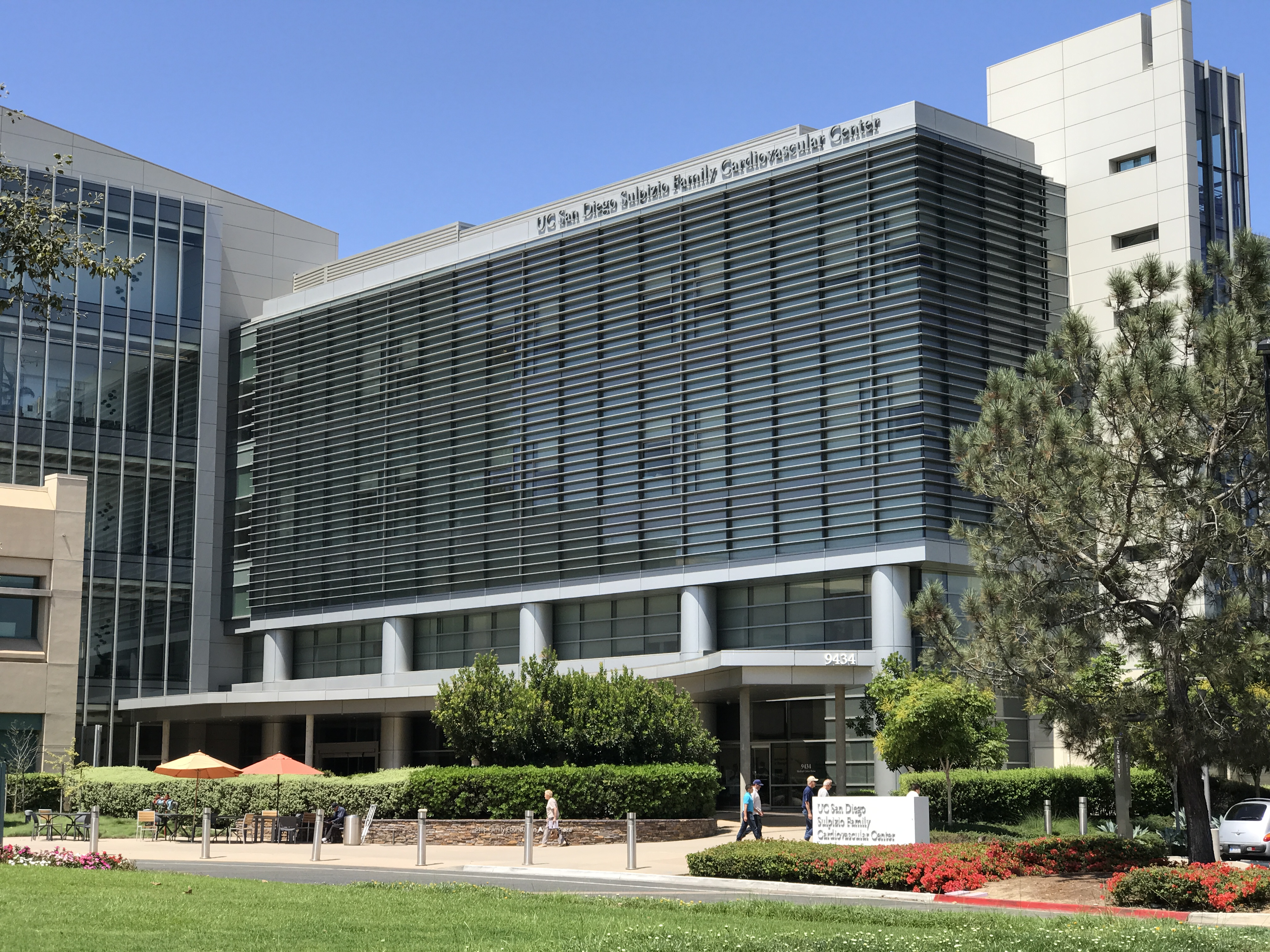 The Sulpizio Family Cardiovascular Center houses the Departments of Cardiology and Emergency Medicine at the UC San Diego Health La Jolla campus in La Jolla, California.